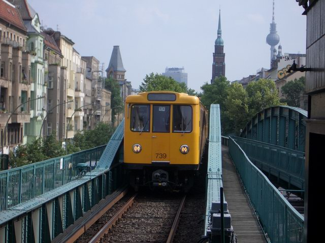 Elevated subway route in Prenzlauer Berg, Berlin